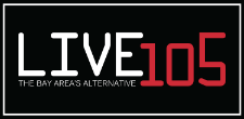 Logo of San Francisco alternative rock station KITS "Live 105" introduced in 2015.